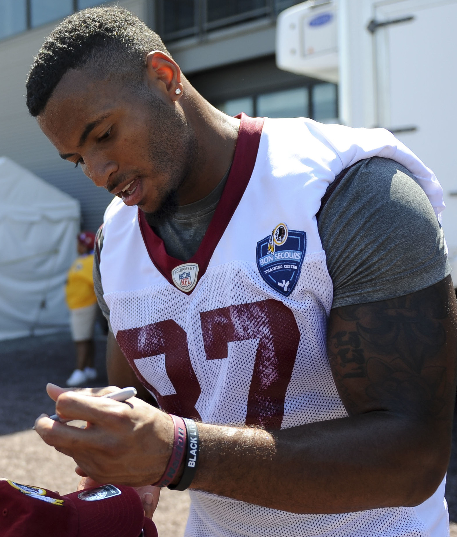 U.S. Air Force Airman 1st Class Dakota, 36th Intelligence Squadron, geospatial intelligence analyst gets his memorabilia signed by Washington Redskin Je'Ron Hamm during the team’s training camp at the Bon Secours Training Center in Richmond, Va., July 31, 2015. U.S. Service members watched the practice from the field sidelines, and met with team players.